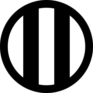 one of the Japanese Crest Hikiryou-mon